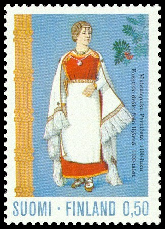 Postage stamp illustrating a traditional Finnish dress from the Perniö region